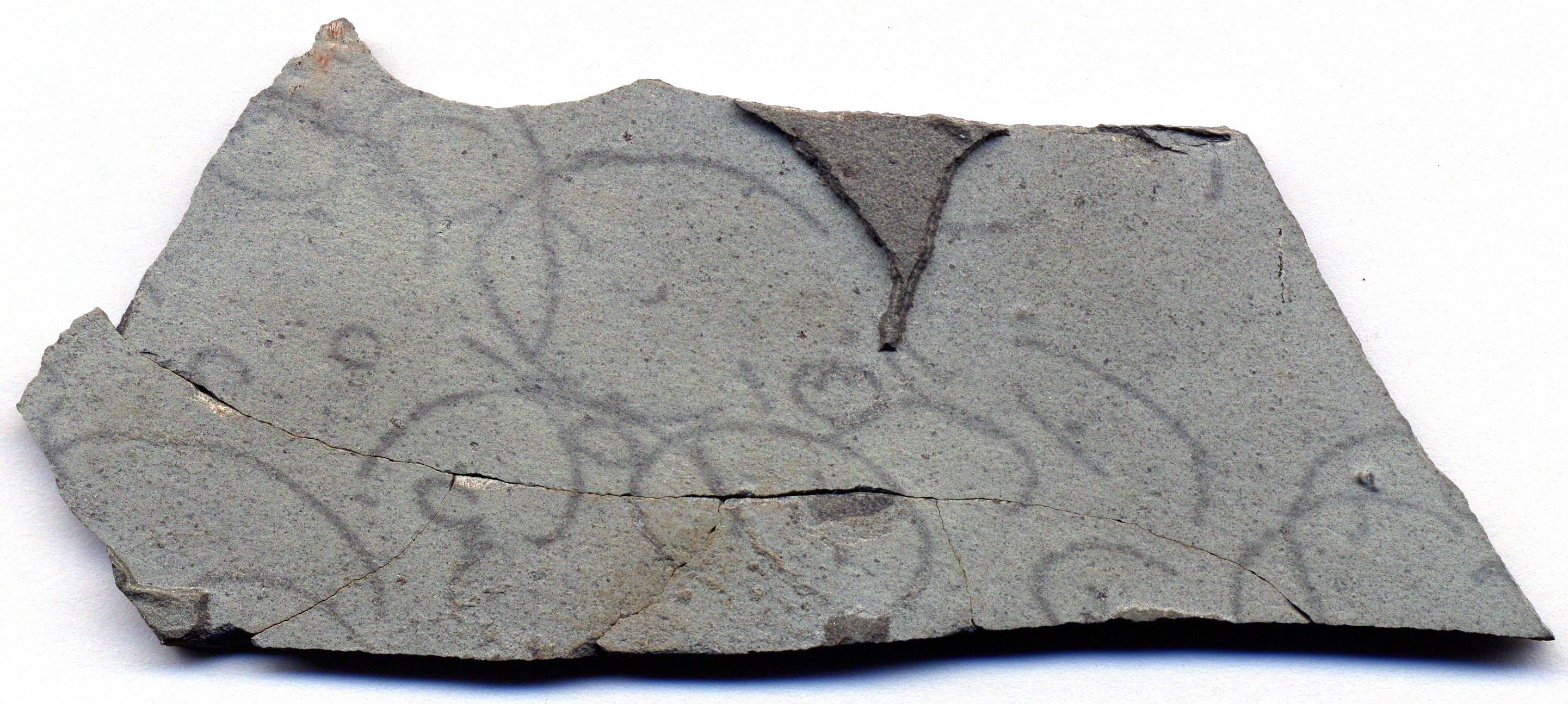 Grypania spiralis ribbons on gray, finely-laminated, iron-rich mudshale (slab is 9.0 cm across; each fossil ribbon is ~0.5 to 0.6 mm wide) from the Negaunee Iron-Formation at the Empire Mine near Ishpeming, UP of Michigan, USA. The oldest known fossils on Earth are 3.5 billion year old stromatolites and bacterial body fossils from western Australia and southern Africa. The oldest currently known macroscopic body fossils are Grypania spiralis - distinctive spirally coiled “algae” - from the Negaunee Iron-Formation of Michigan’s Upper Peninsula (UP). They come from the “fossiliferous zone” of the lower “magnetite-carbonate-silicate-chert iron formation” interval of the lower Negaunee Iron-Formation (= unit 2 of Han in Gair, 1975, USGS Professional Paper 769: 77), upper Menominee Group, Marquette Range Supergroup. The Negaunee Fe-Fm. dates to the mid-Paleoproterozoic, at 2.11 billion years, although a 1.874 billion year date for this unit was published in the 2000s. Fossil material from this area has been documented in Han & Runnegar (1992) (Science 257: 232-235). The sample shown here is from the same locality cited in the Han & Runnegar (1992) paper. It comes from the Empire Mine, an open-pit iron mine exploiting the Negaunee Fe-Fm. Locality: Empire Mine, just northwest of the town of Palmer & southeast of the town of Ishpeming, Marquette County, western Upper Peninsula of Michigan USA (46° 27’ 18” North, 87° 36’ 32” West). What does Grypania represent? The safest identification is that they are eucaryotes (Domain Eucaryota). In a generalized way, they are often simply referred to as fossil algae.